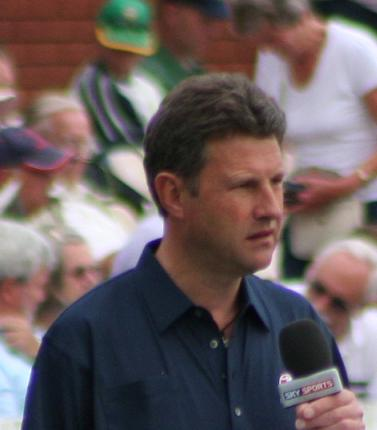 A cricket commentator, Charles Colville at Taunton Cricket Ground